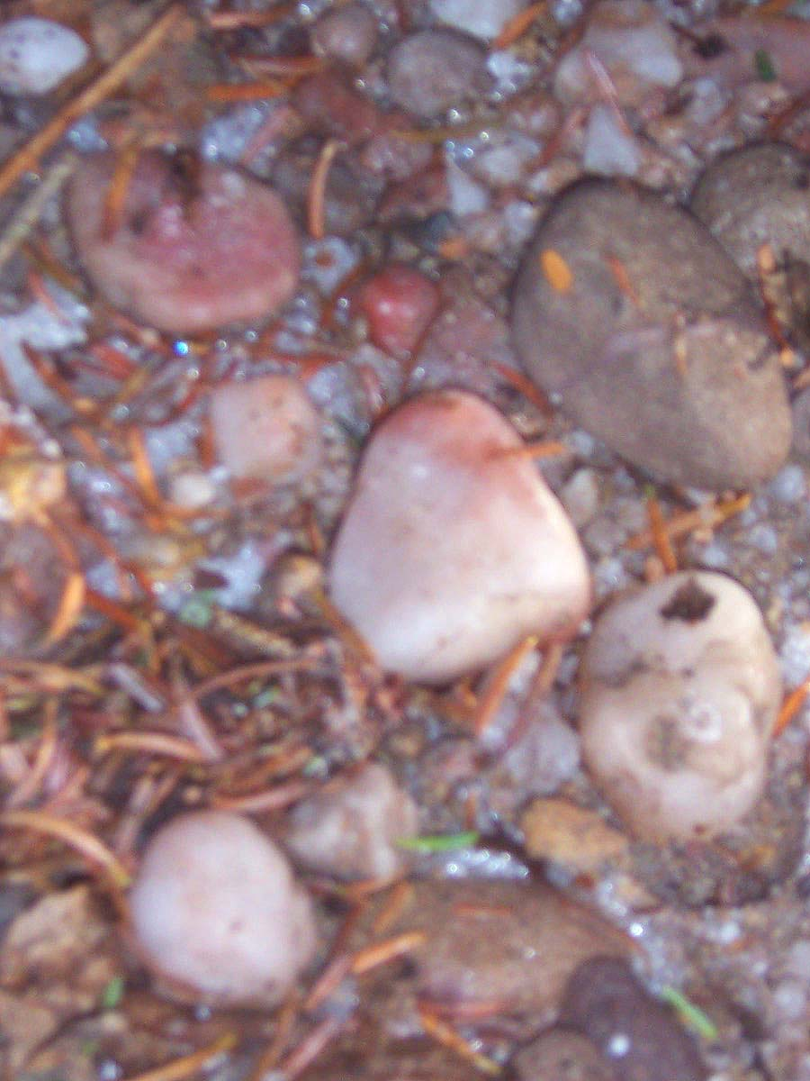 Photographed by Daniel Case 2005-11-12. Slightly blurred, I know, but until I get a better one this will have to do.